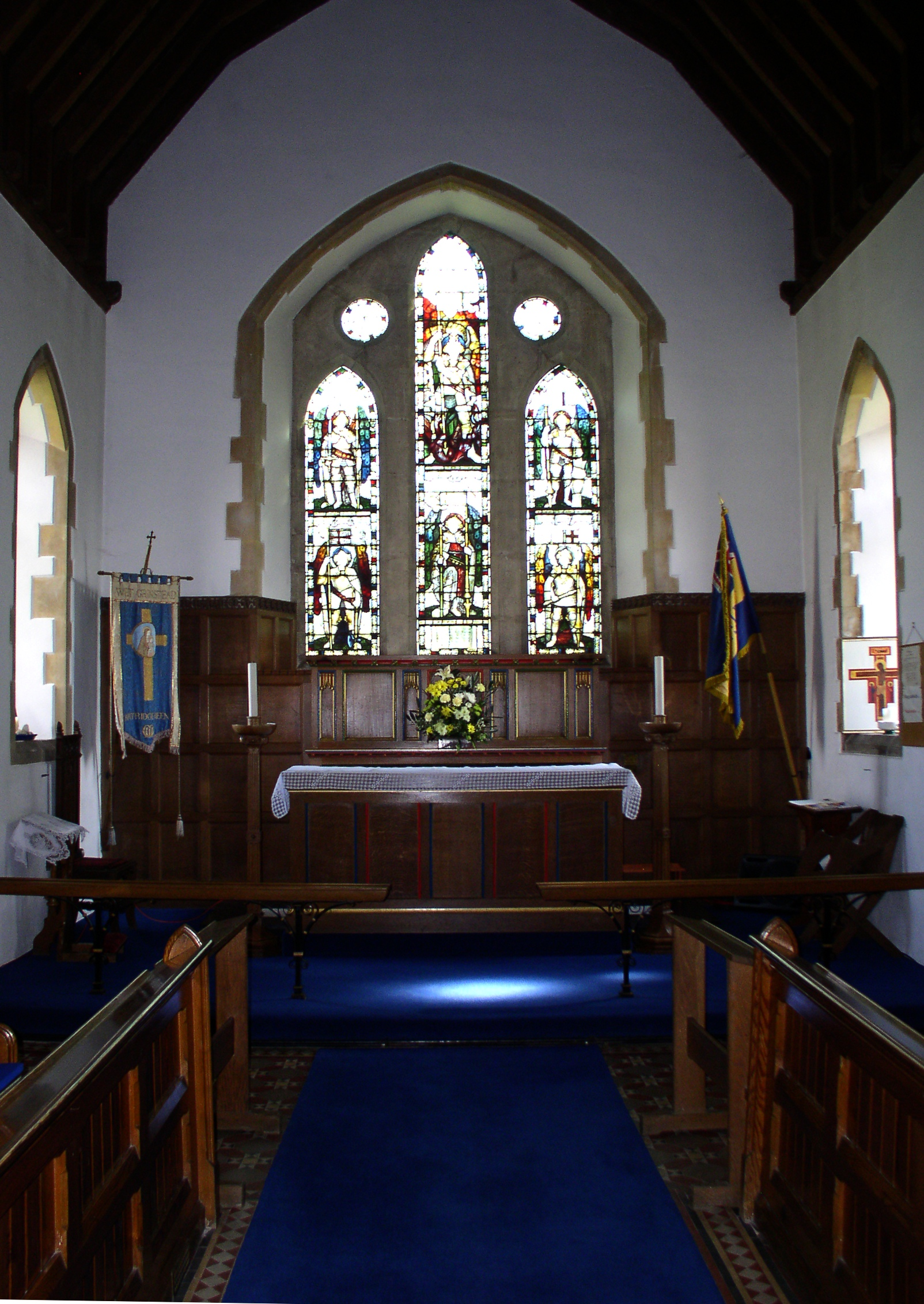 The chancel of St Michael and All Angels Church, Partridge Green, West Sussex